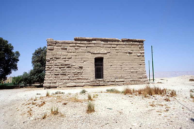 Façade of the Temple of Isis at Deir el-Shelwit, Egypt